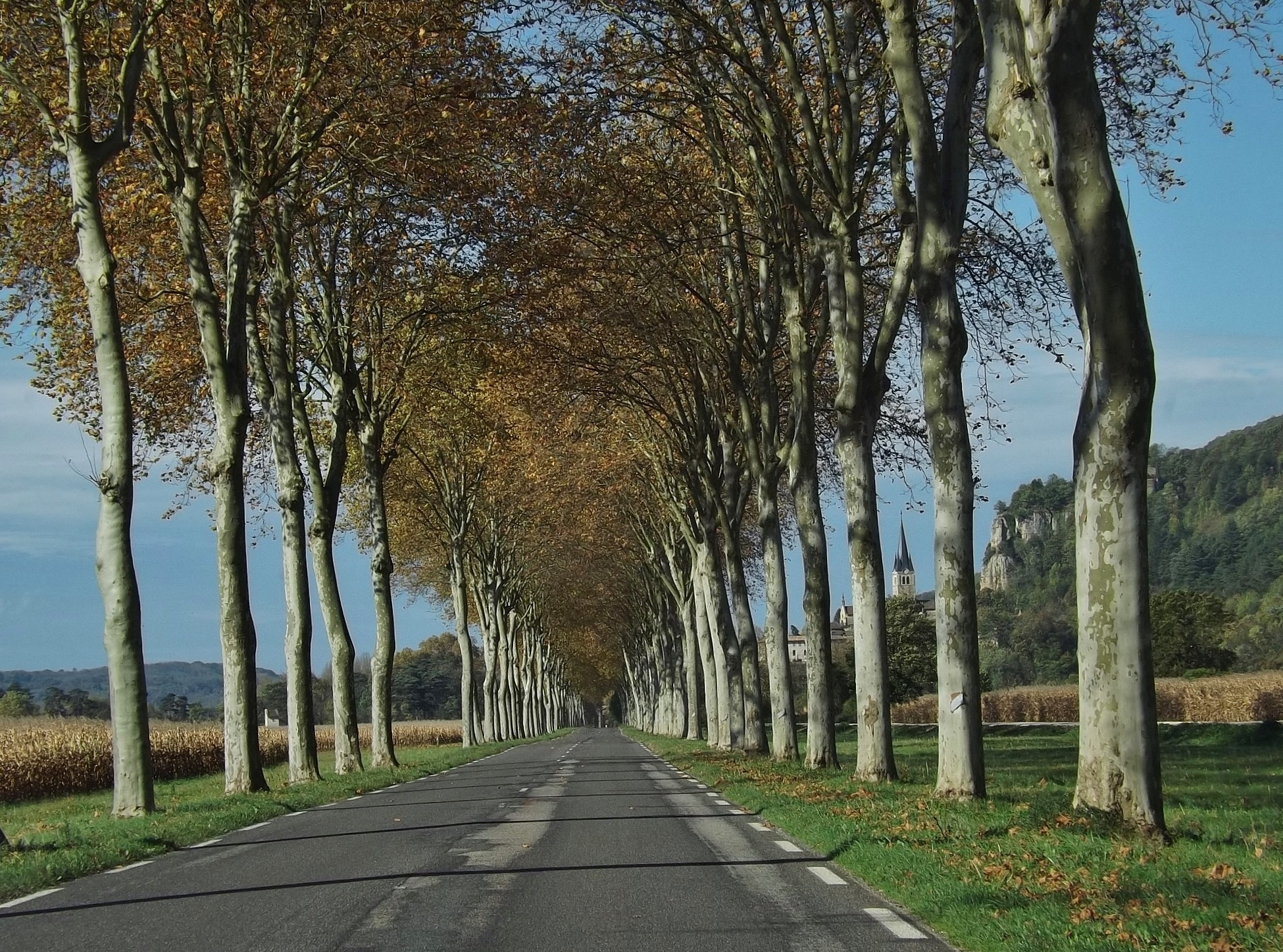 Sight of the French RD 122 road, here between communes of Sault-Brénaz (back) and Saint-Sorlin-en-Bugey (church visible on the right), in Ain.